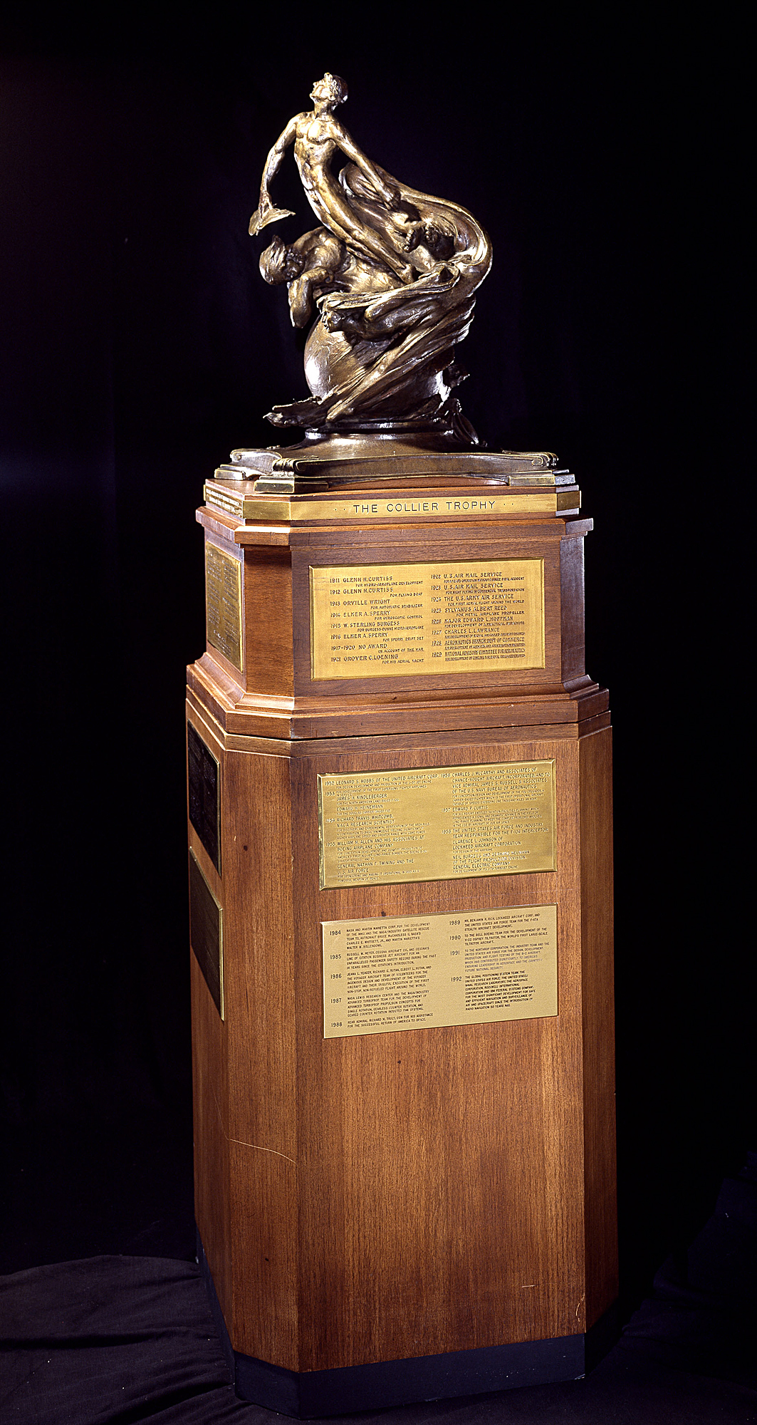 Front view of the Robert J. Collier Trophy (A19520061000) and its pedestal featuring plaques engraved with the names of the recipients. Studio photograph against black background; Smithsonian National Air and Space Museum, Washington, D.C., 1995.